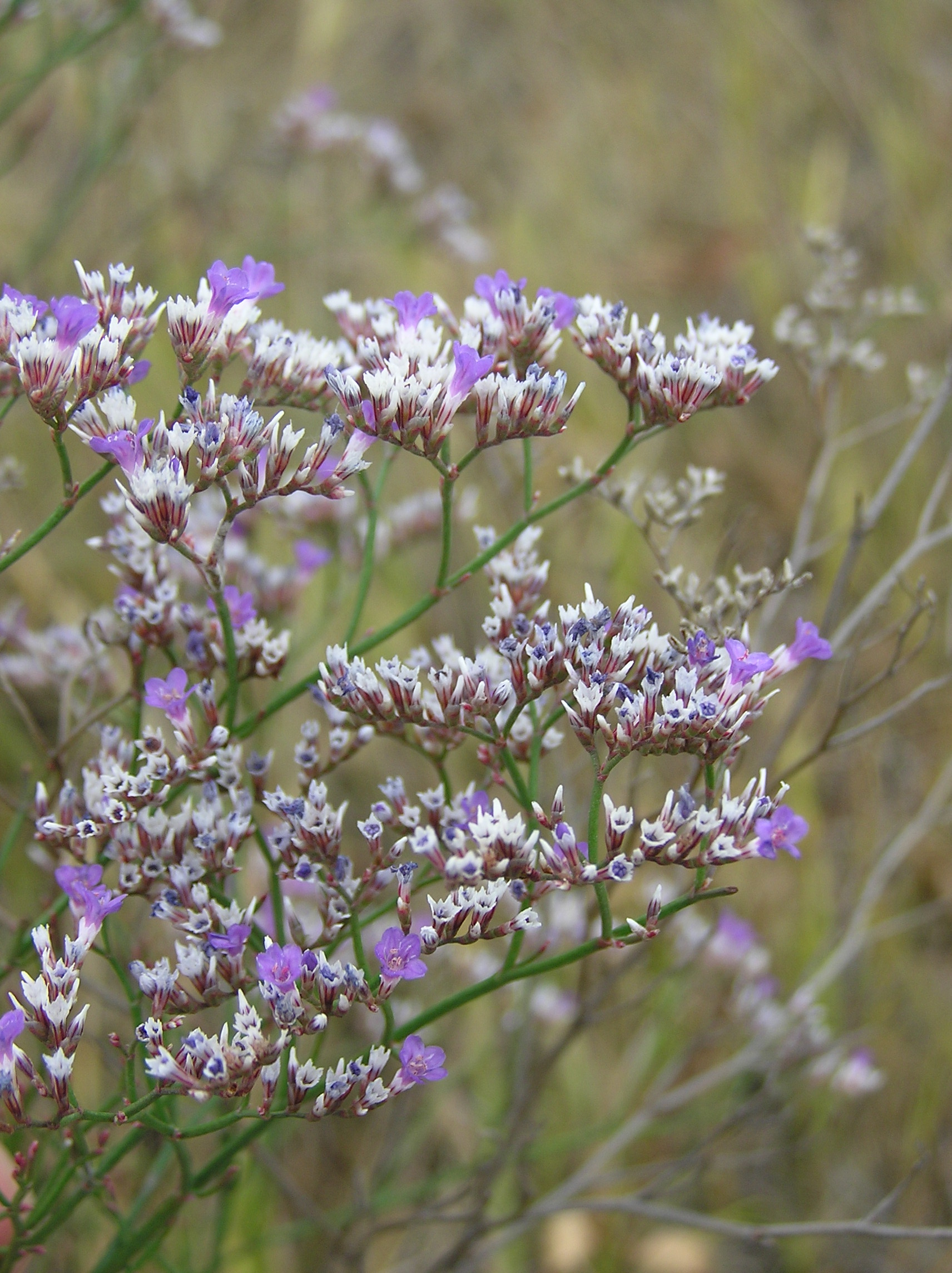 Limonium sareptanum (A.K. Becker) Gams, flowers. Habitat: saline steppe. Vicinity of Saratov city, Russia.